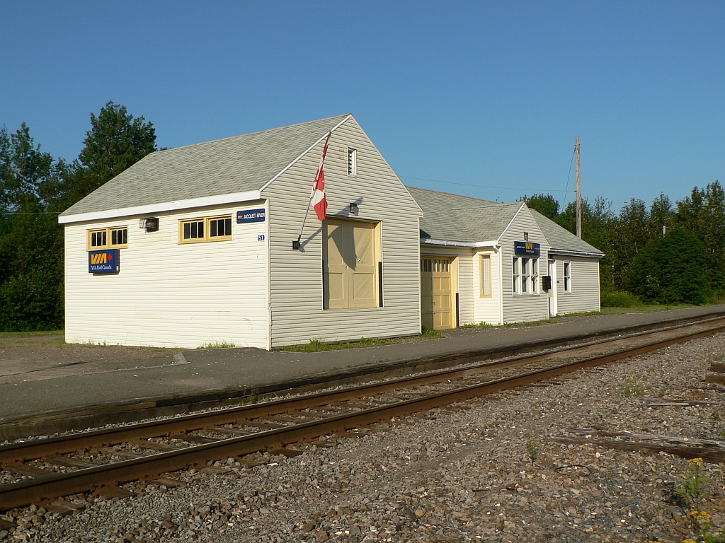 The Via Rail flagstop station in Jacquet River, New Brunswick, Canada.